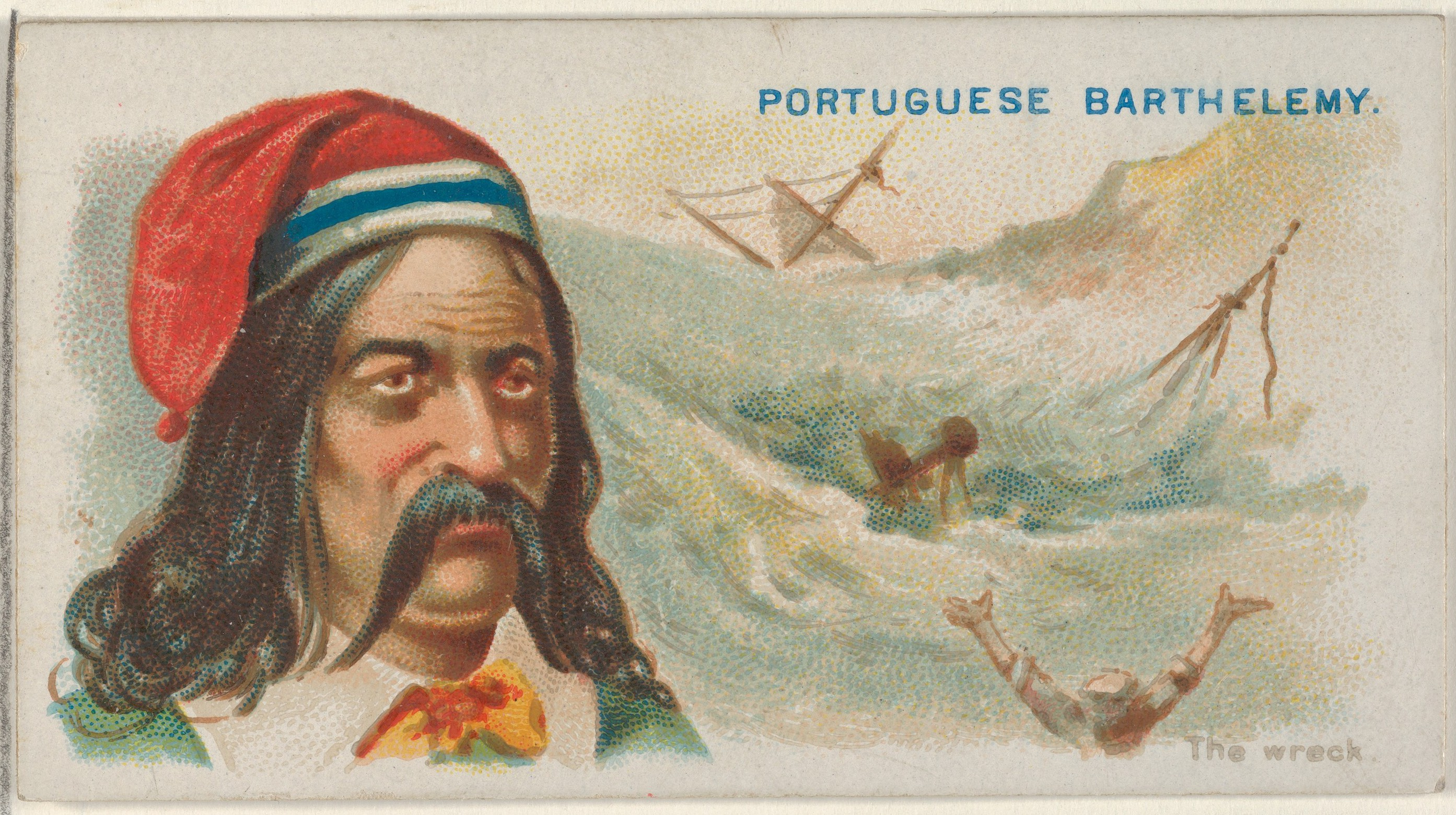 Print; Prints